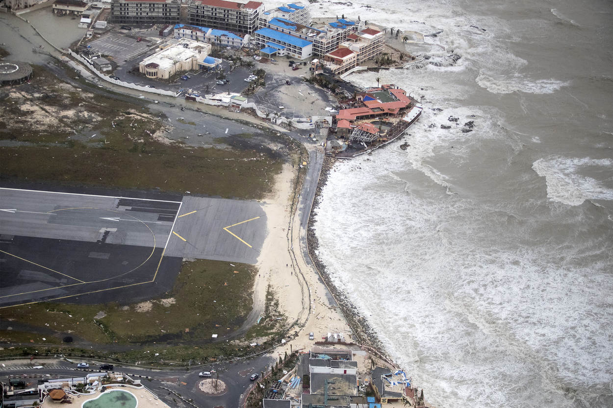 Hurricane Irma on Sint Maarten (Caribbean Netherlands) - air photo